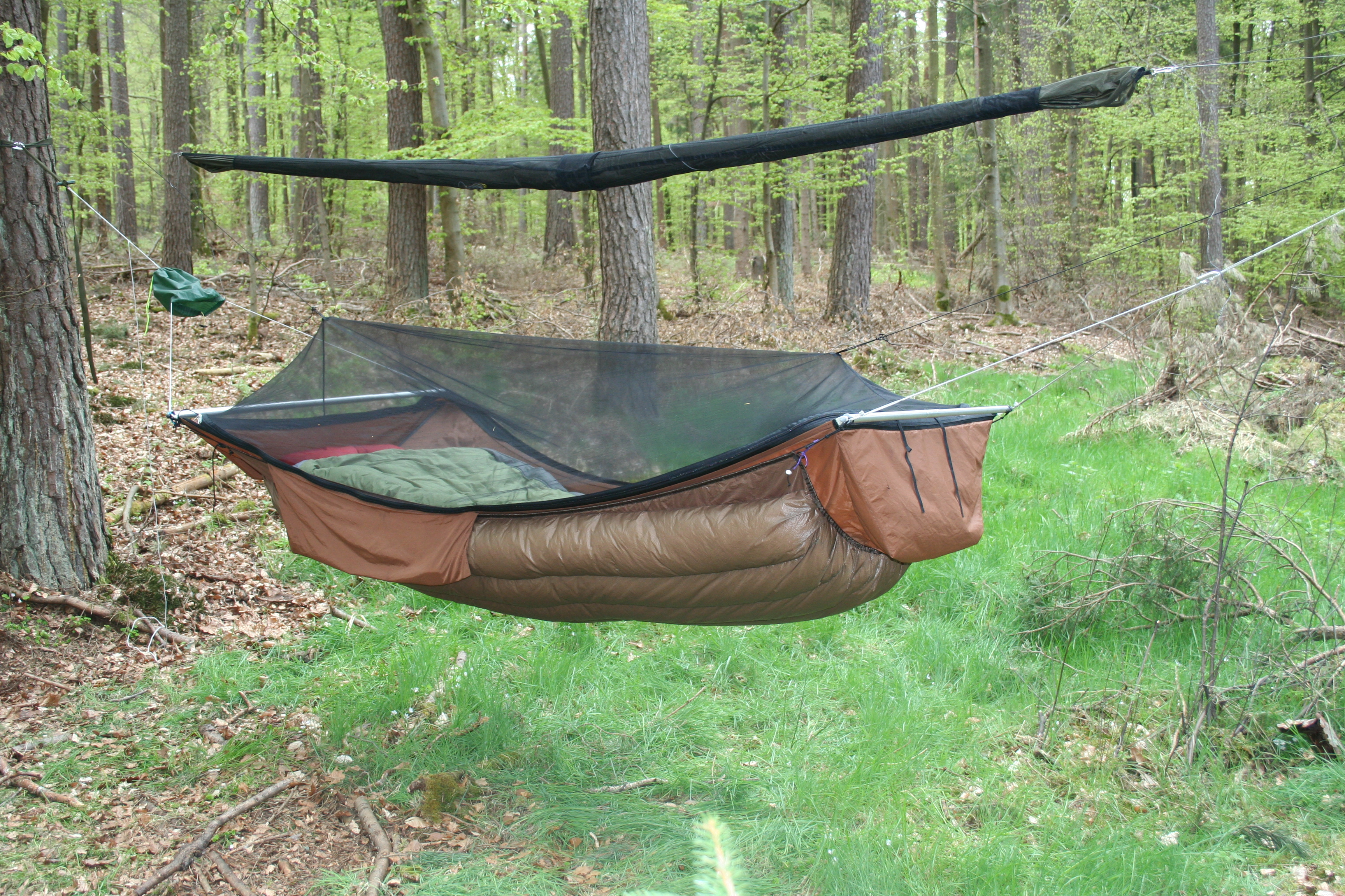 A bridge hammock with bugnet and underquilt, above a tarp in snakeskins